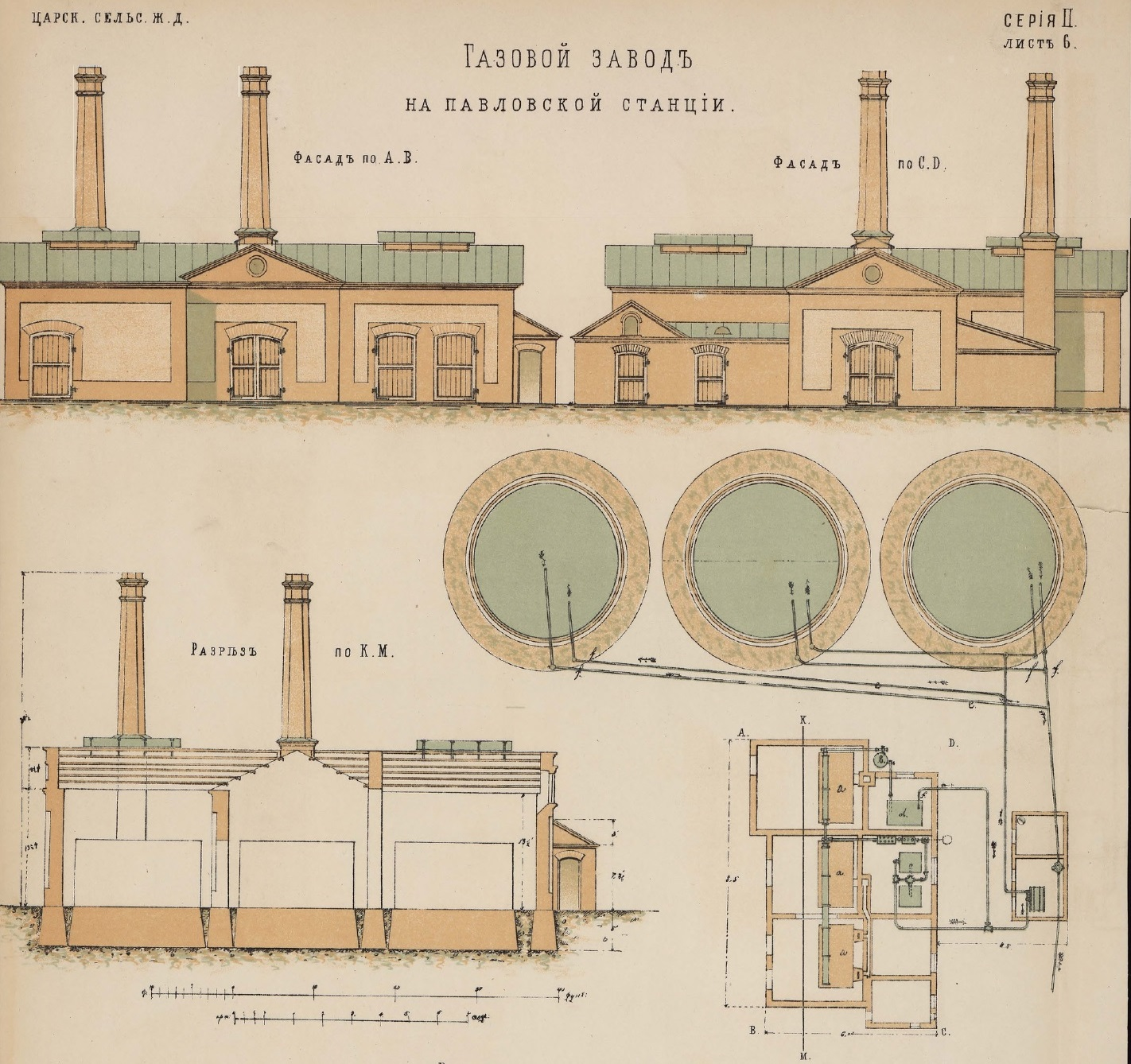 Gaswork. Tsarskoye Selo railway. Russian Empire